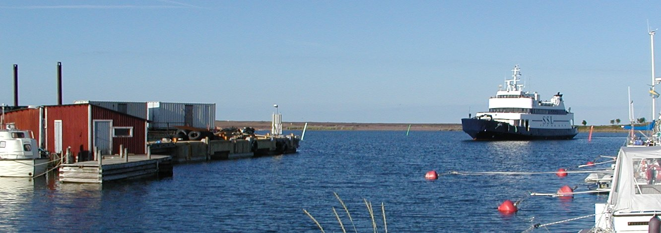 M/S Aspö aproaching the port of Jurmo island in Korpo, Finland